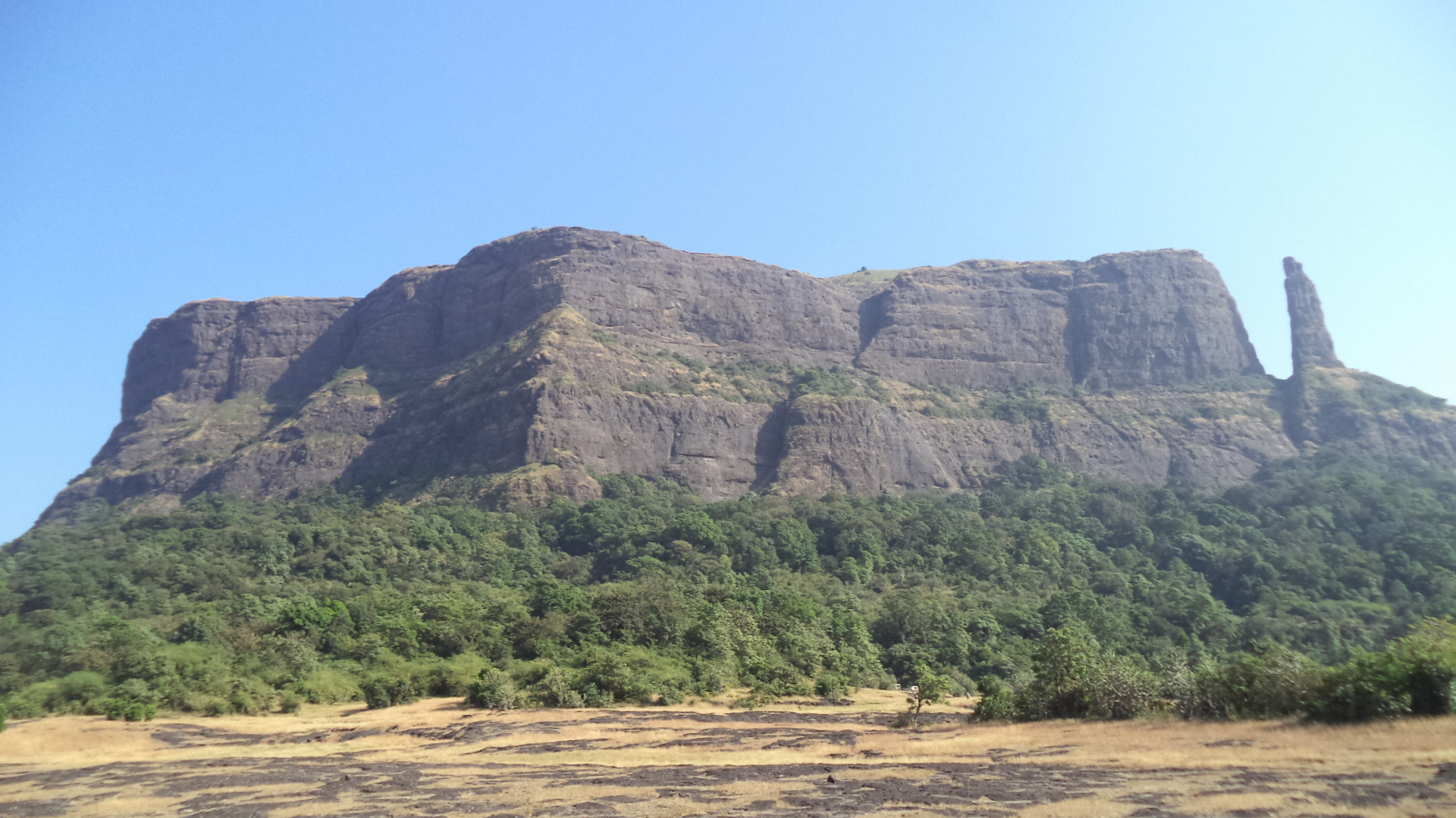 Jivdhan fort Other information self photographed